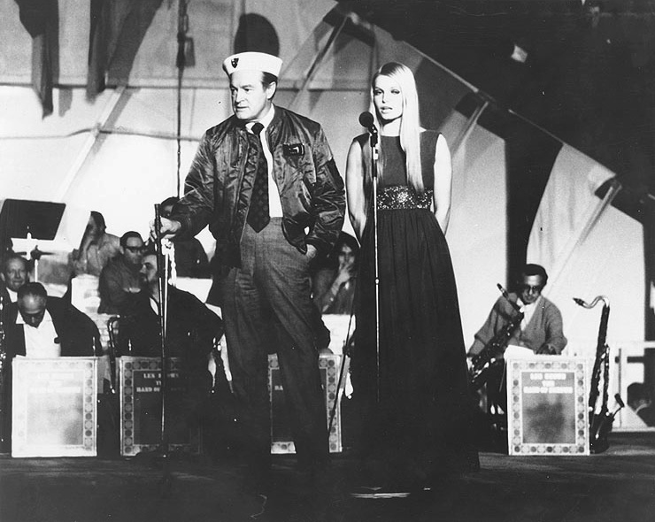 The entertainer Bob Hope on stage with Miss World 1969, Eva Rueber-Staier, during a Christmas show for servicemen held on board the U.S. Navy aircraft carrier USS Saratoga (CVA-60), off Gaeta, in Formia Bay, Italy, 22 December 1969.The Bob Hope USO Tour performed at 1400 hrs. aboard Saratoga with Eva Rueber-Staier, Hollywood stars Connie Stevens, Suzanne Charny, the "Golddiggers", Ellen Farley, and Les Brown and his "Band of Renown". Over 6.000 Sixth Fleet sailors from Saratoga, USS Little Rock (CLG-4), five destroyers and a fleet oiler attended the event held in the carrier's hanger bay.